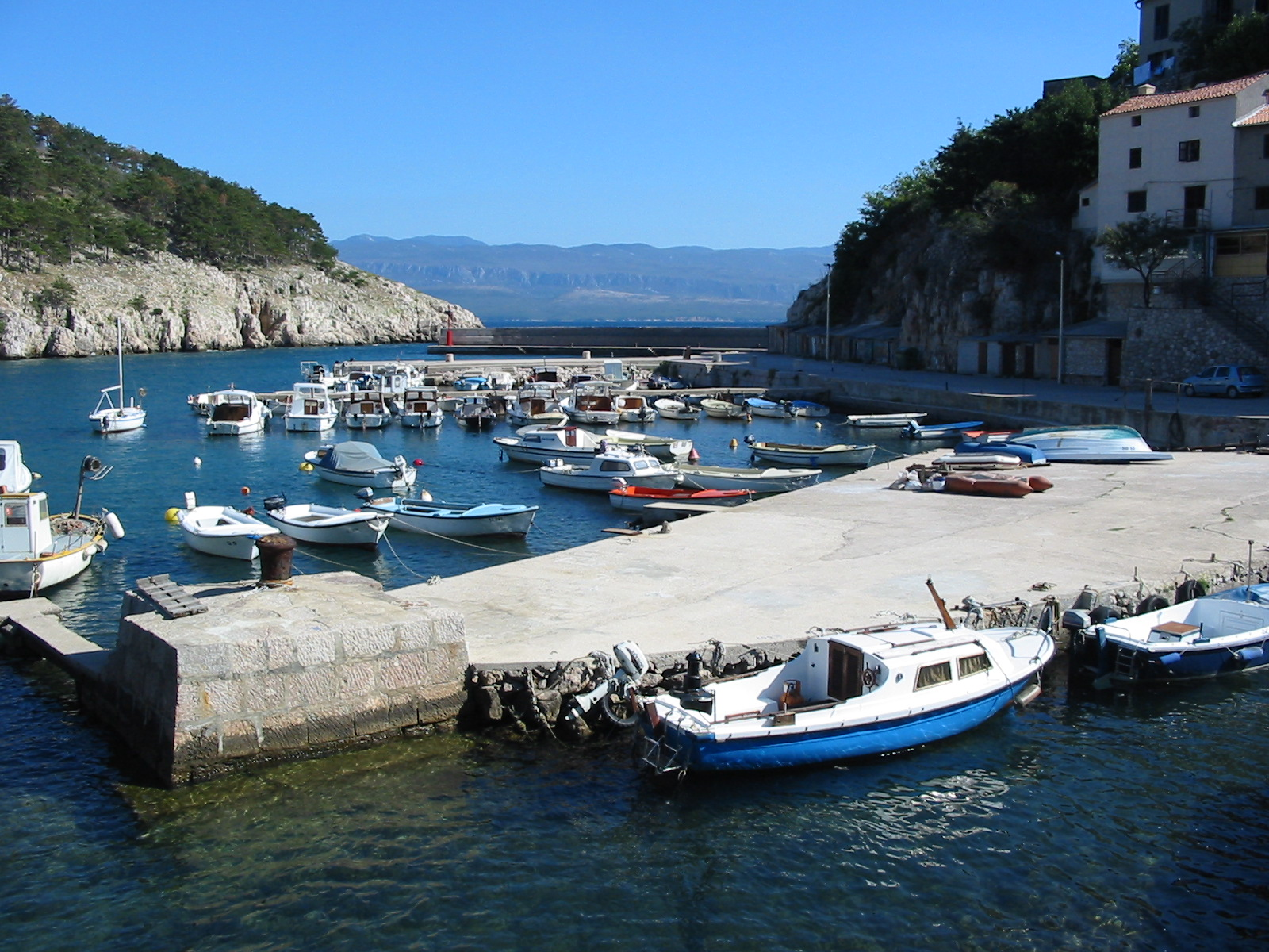 Port of Vrbnik (Island Krk, Croatia).